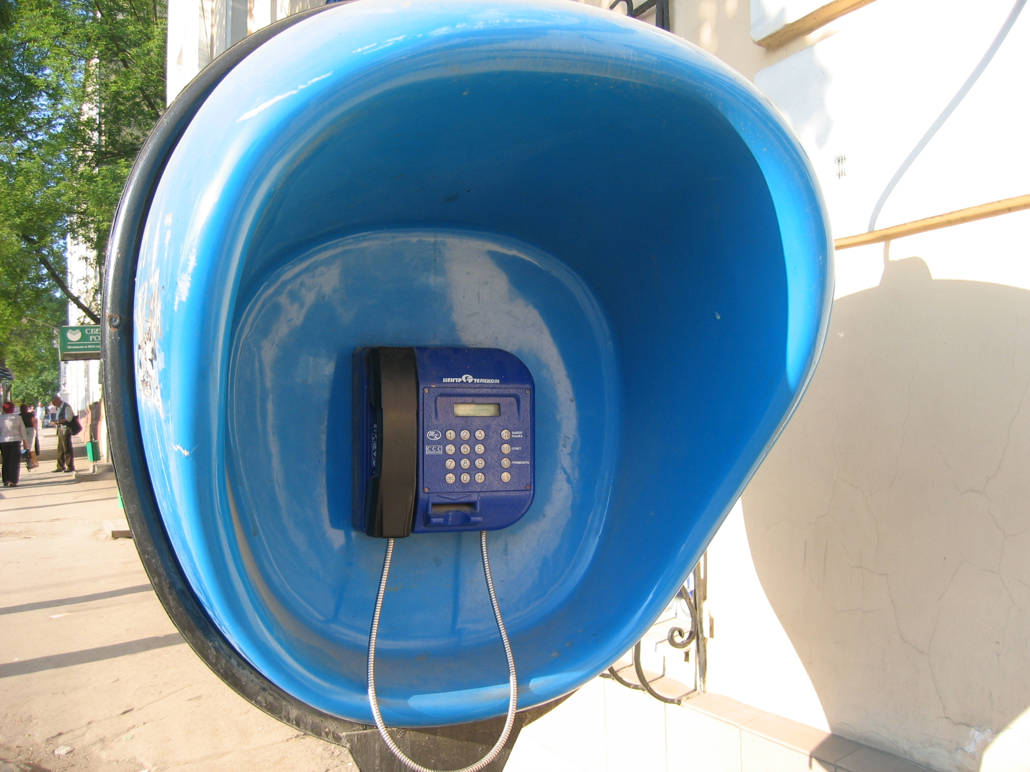 CenterTelekom phone booth in Tula